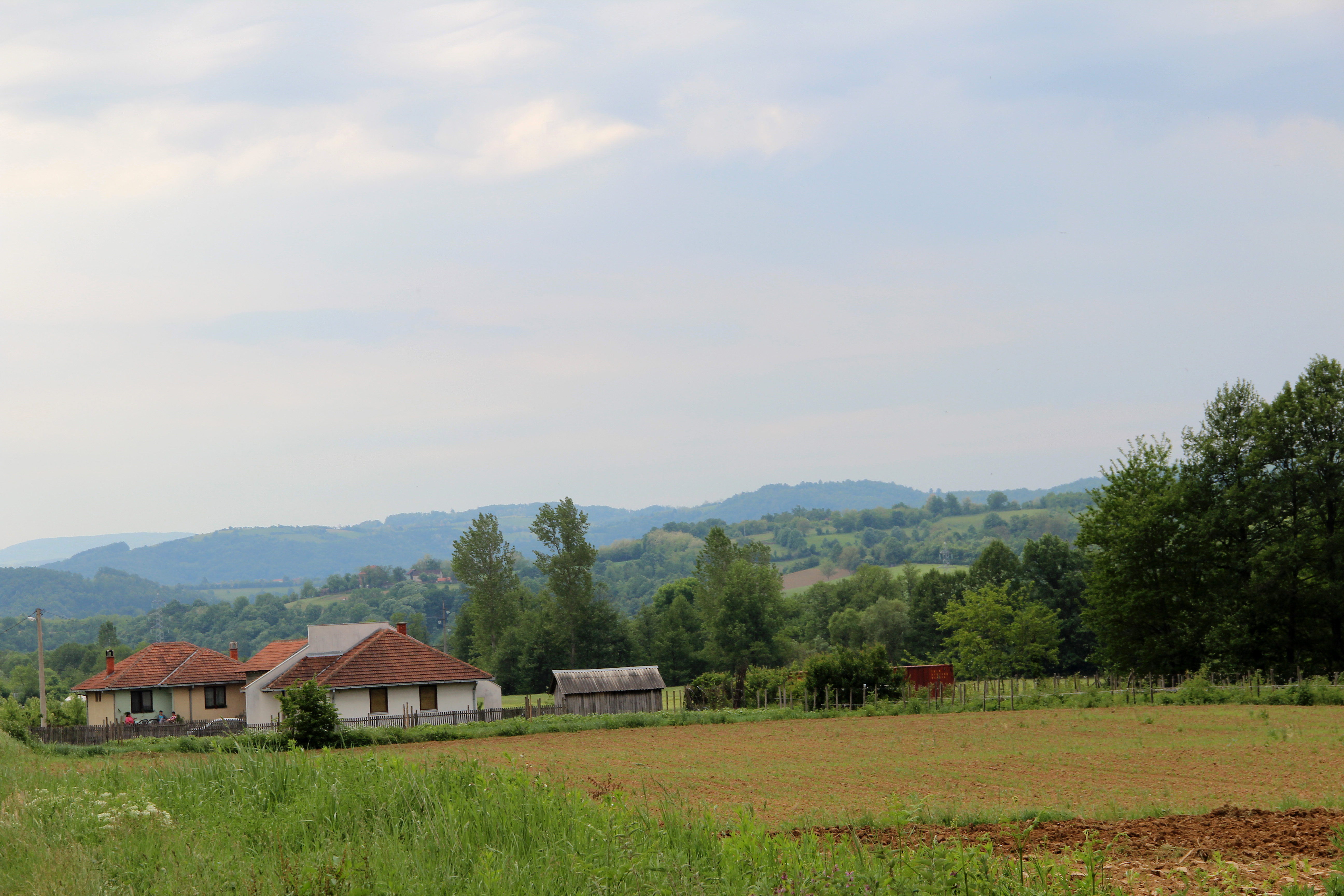 Donja Bukovica village - Municipality of Valjevo - Western Serbia - panorama 6